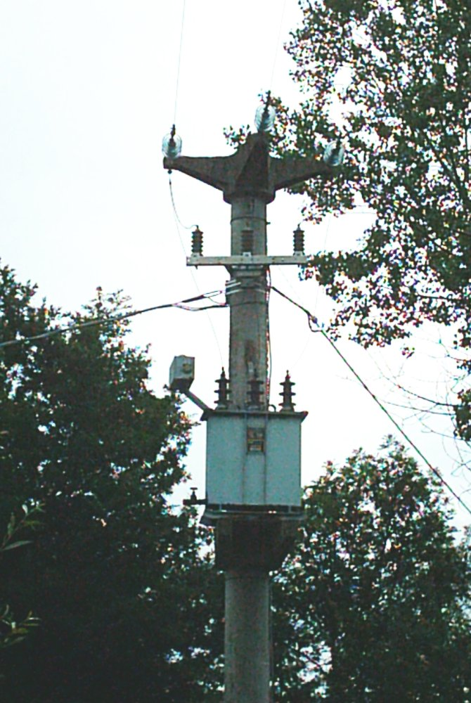 Three-phase pole-mounted power distribution transformer, rural Italy.